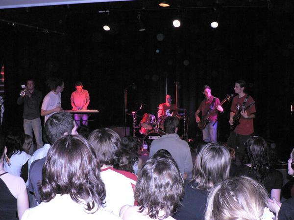 Band Kiwi Balenga, concert in France, in Montaigu, in the high school "Leonar de Vinci"